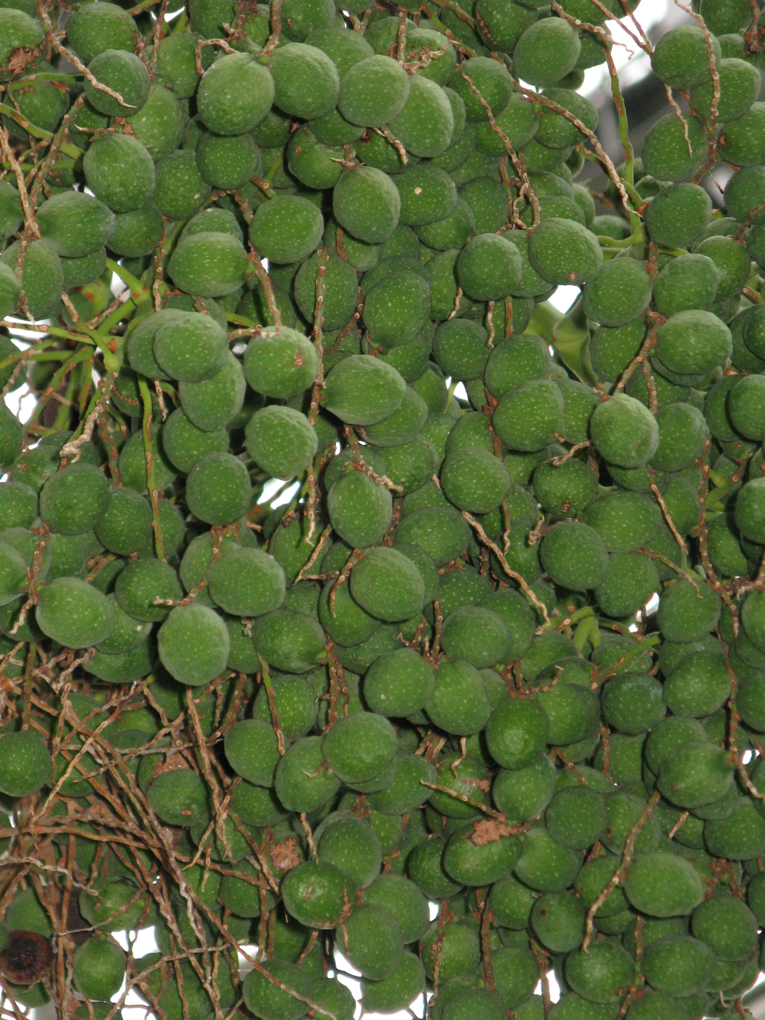 Scientific name Hyophorbe lagenicaulis